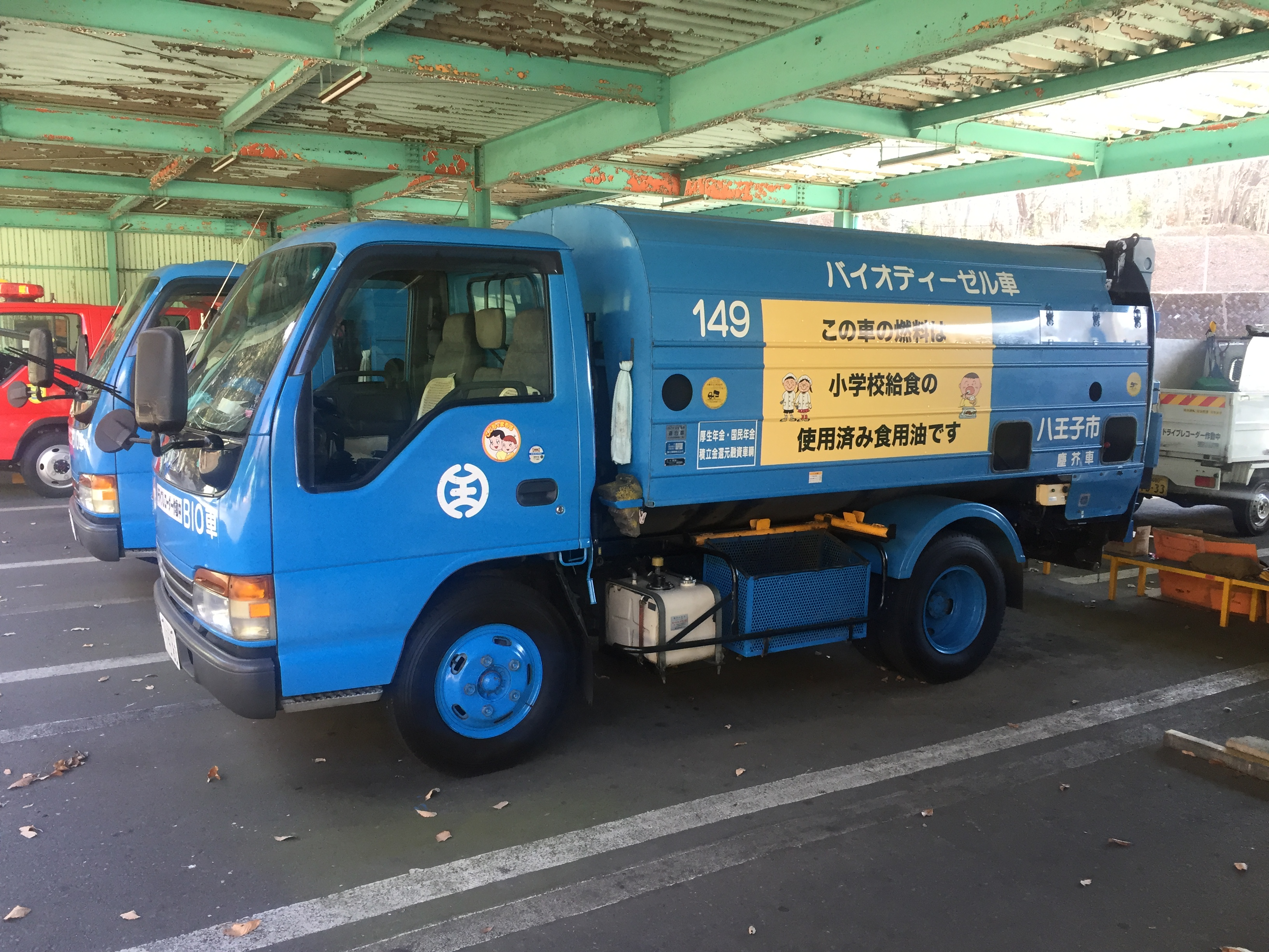 A rotating carton garbage truck that uses biodiesel fuel. (FUJICAR Rotary Press, modified Isuzu Elf) in Hachioji, Tokyo.